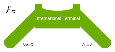 Green colored diagram of the bottom side of the airport showing the labeled spokes